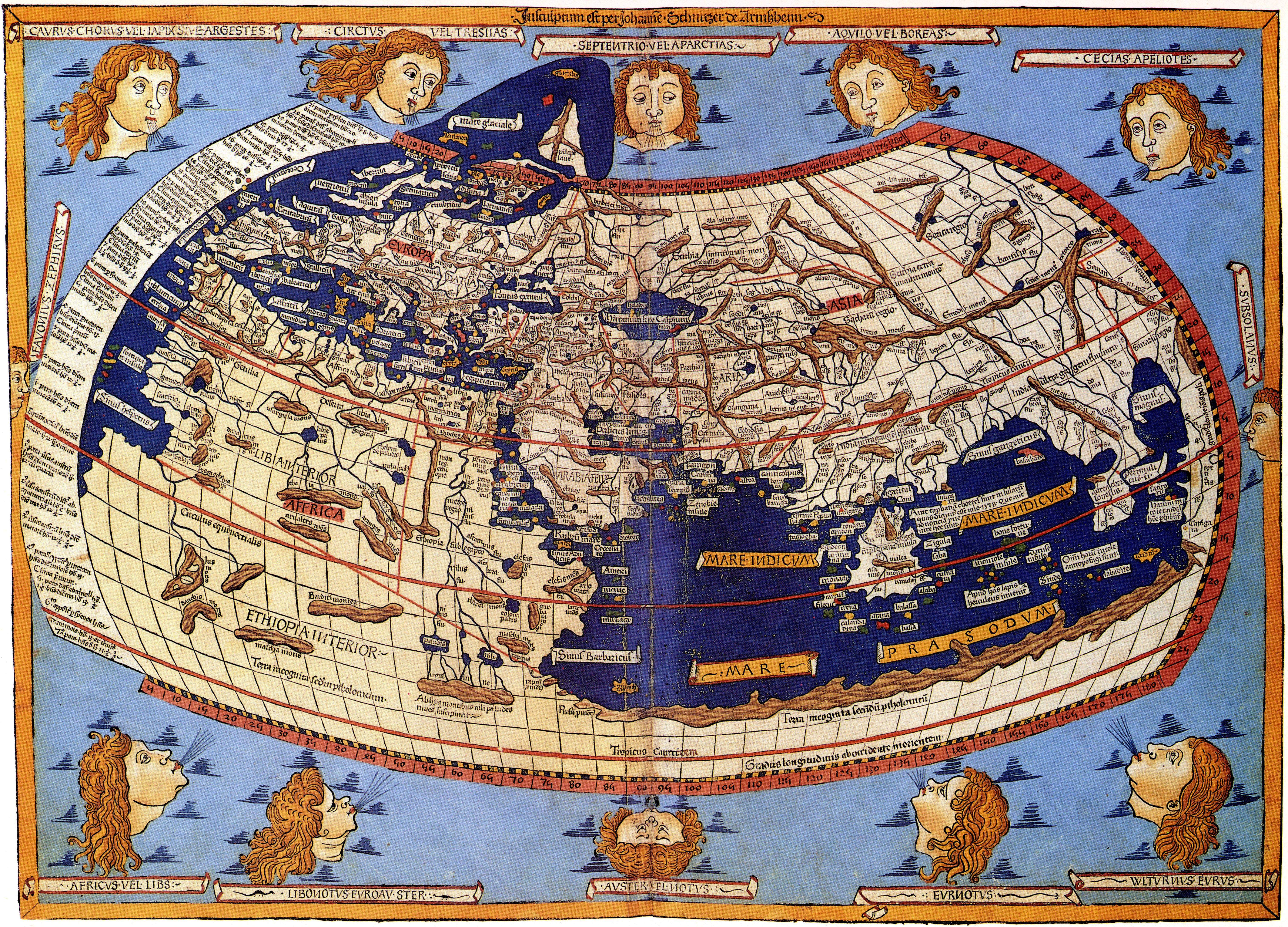 The world map from Leinhart Holle's 1482 edition of Nicolaus Germanus's emendations to Jacobus Angelus's 1406 Latin translation of Maximus Planudes's late-13th century rediscovered Greek manuscripts of Ptolemy's 2nd-century Geography.